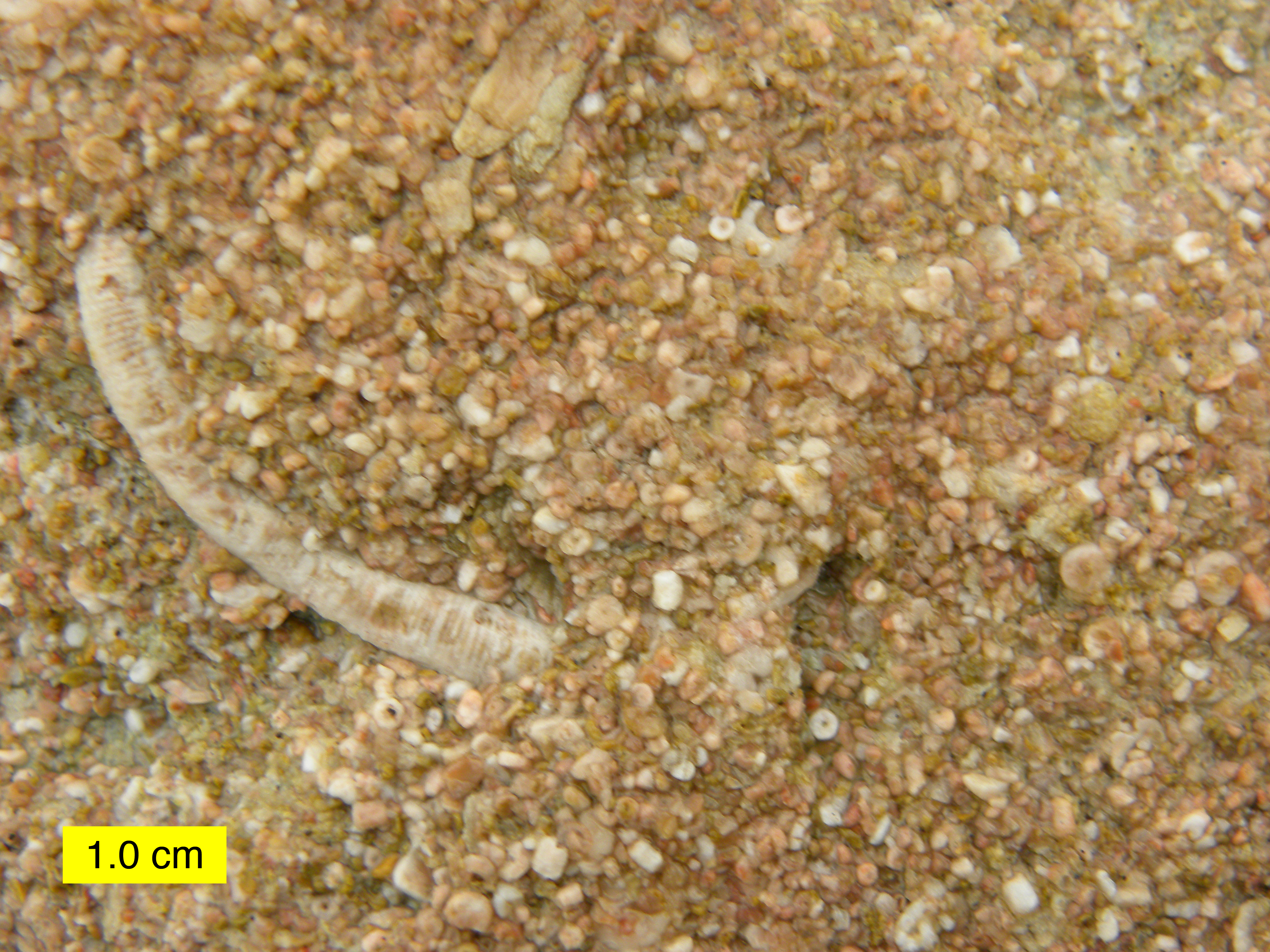 Brassfield Limestone (Lower Silurian) near Fairborn, Ohio, USA. This unit is very rich in echinoderm debris.